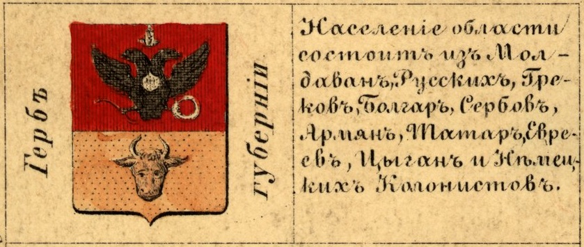 This coat of arms (1812-1856) is extract from one of the 82 illustrated cards of the provinces of the Russian Empire as it was in 1856. Source : derivative work from [1].